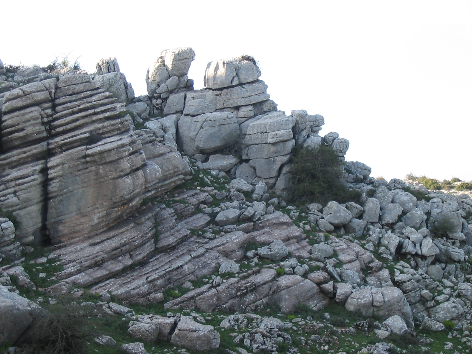 Limestone formations in the Torcal de Antequera. Photographer: Juan Fernández category:Limestone category:Torcal de Antequera